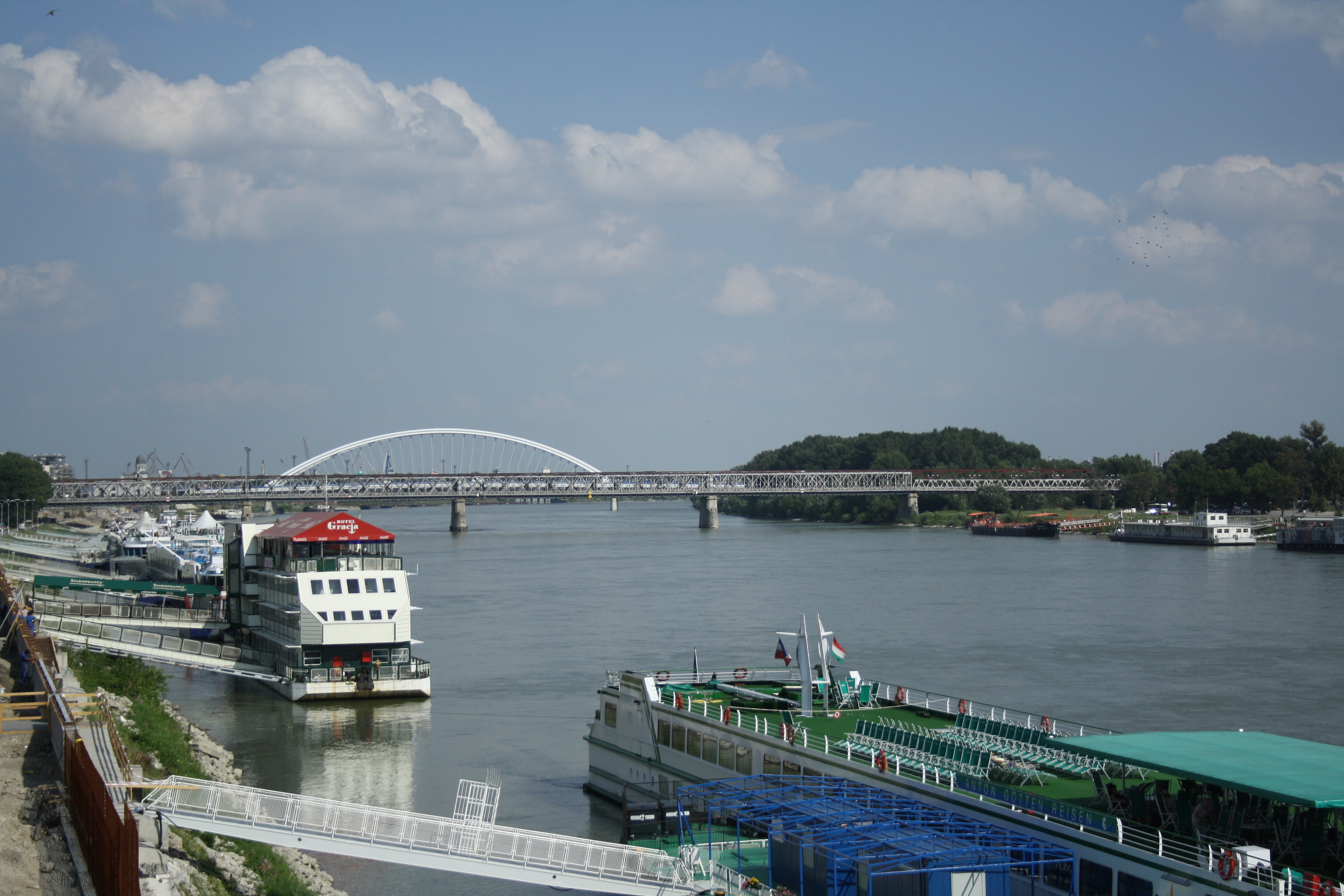 Ships anchoring in Bratislava and bridges over Danube.